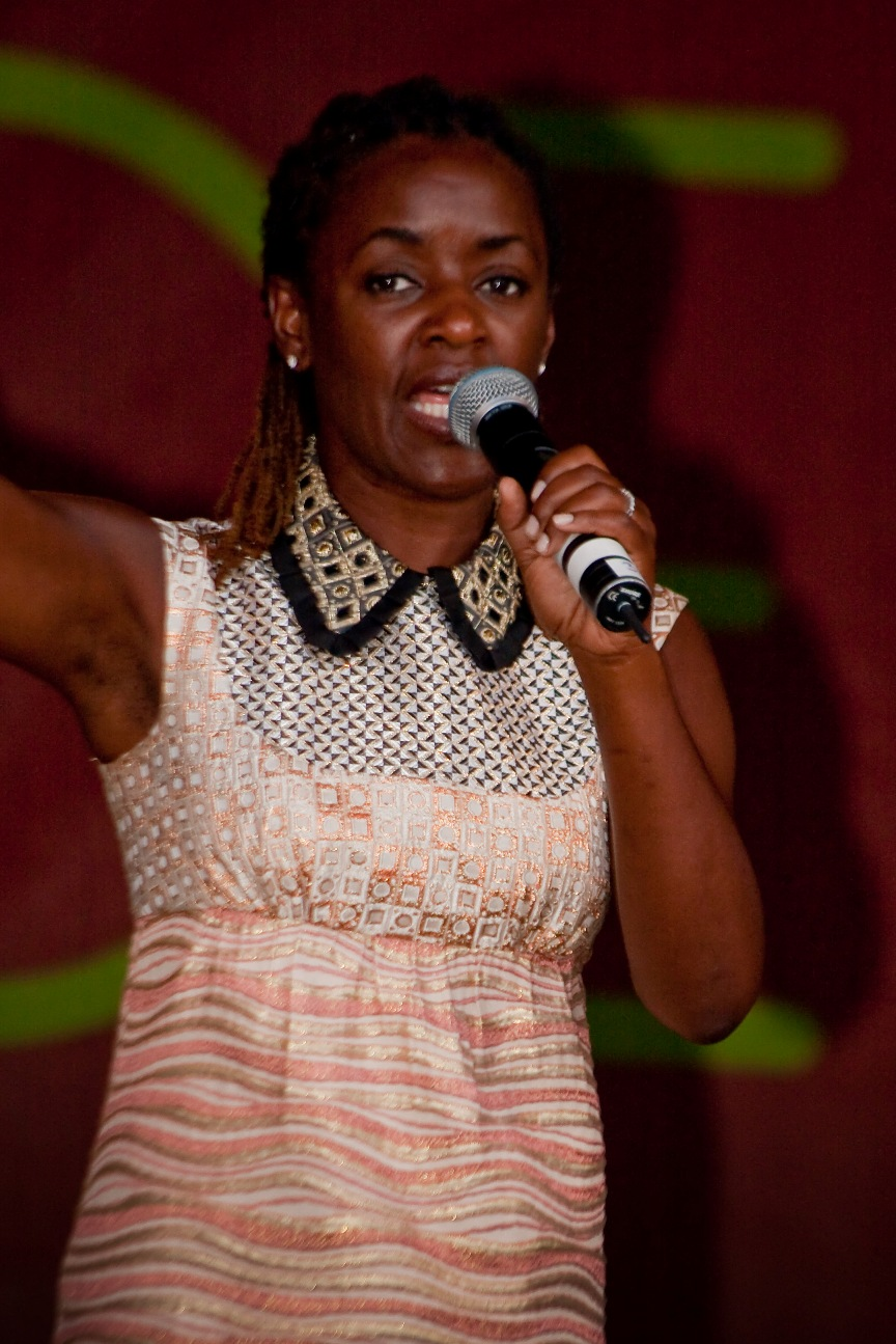 Diane-Louise Jordan, British television presenter, on stage at the London Week of Peace Concert, Trafalgar Square.